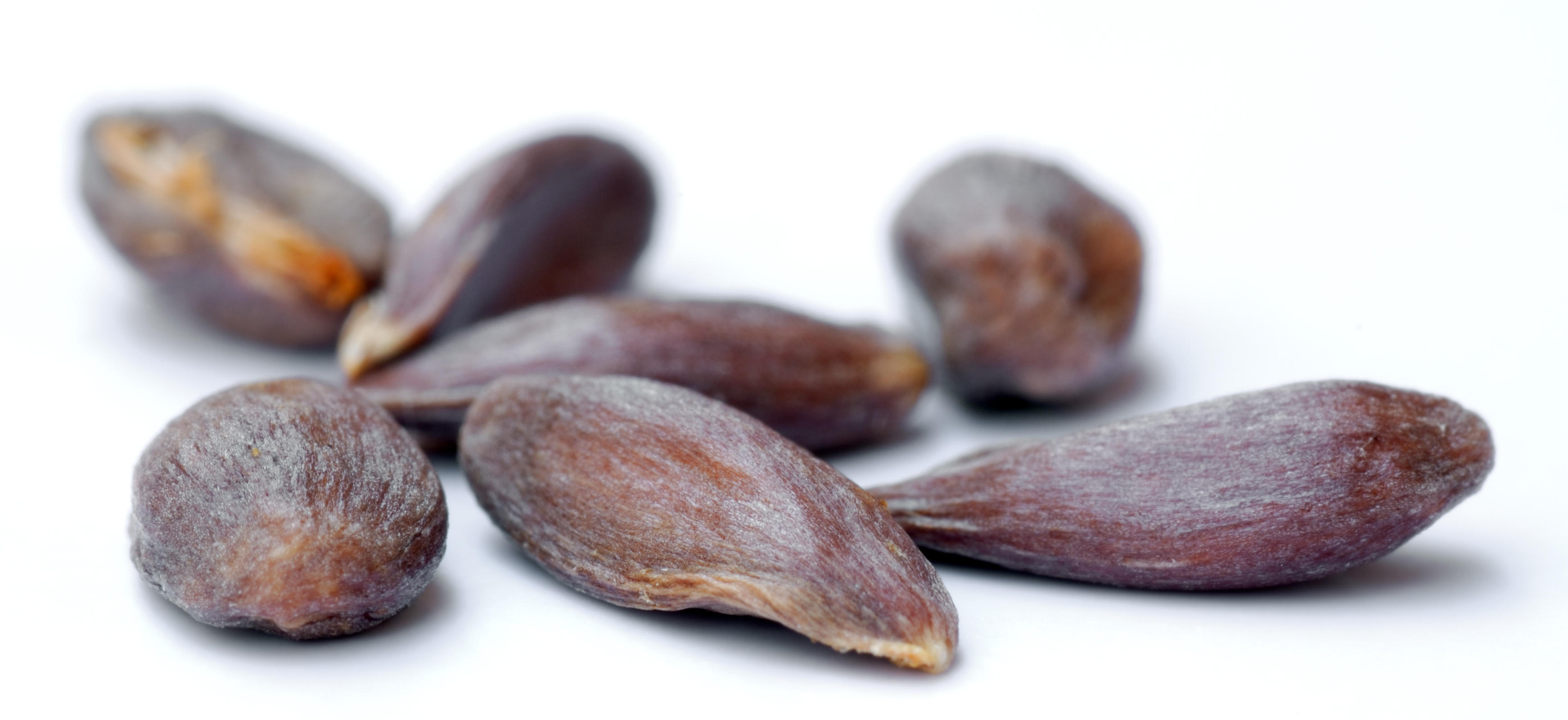 This image shows a few apple seeds of the variety "Braeburn". The length of each seed is about 9 mm (0.35 inch). Thanks to Conny for providing the objects and for the assistance during the photo session.